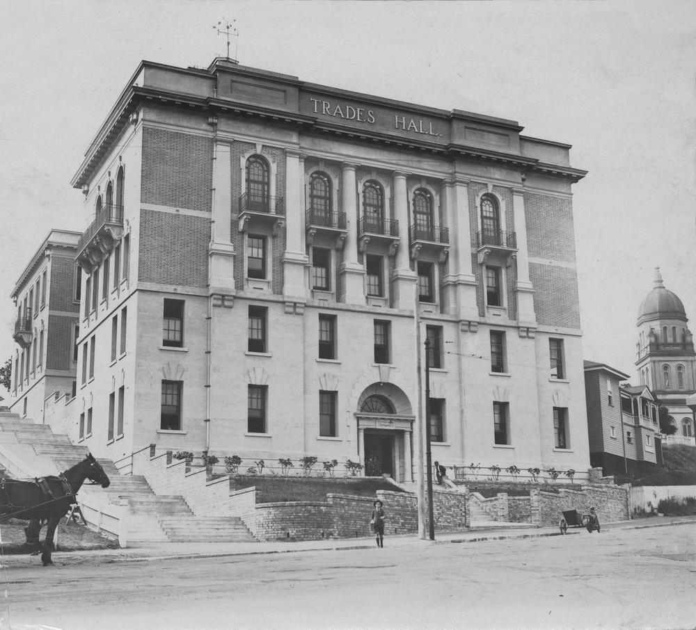 Second Trades Hall building in Brisbane, ca. 1924. The foundation stone for this building was laid on 1st May 1920.